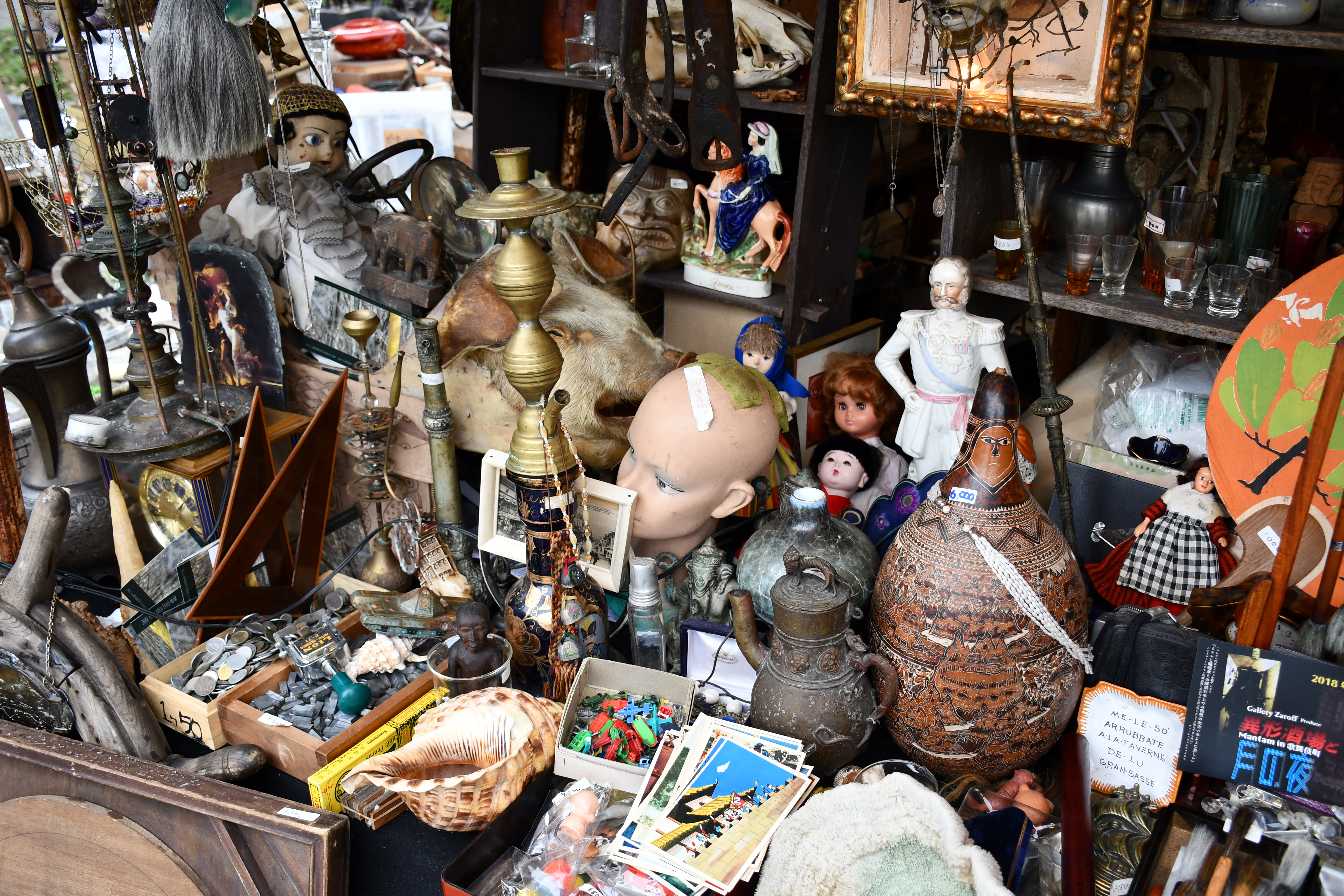 Second-hand stall in Ueno Park, Tokyo (Japan).